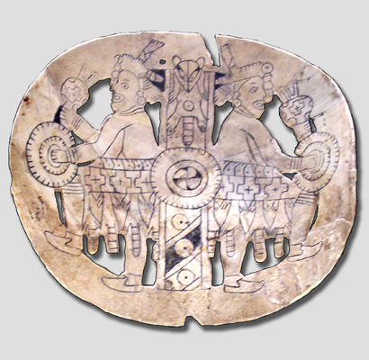 An engraved shell gorget with in the Craig style featuring two "Raccoon dancers", imagery associated with the S.E.C.C. from Spiro Mounds Oklahoma.